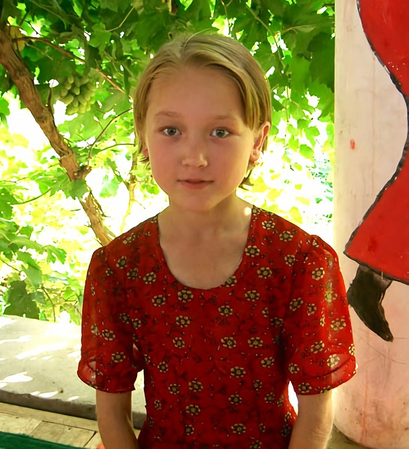 An Uyghur girl photographed in Turpan, Xinjiang, China. (Note: this file was originally captioned "Uyghur girl in July 2005")